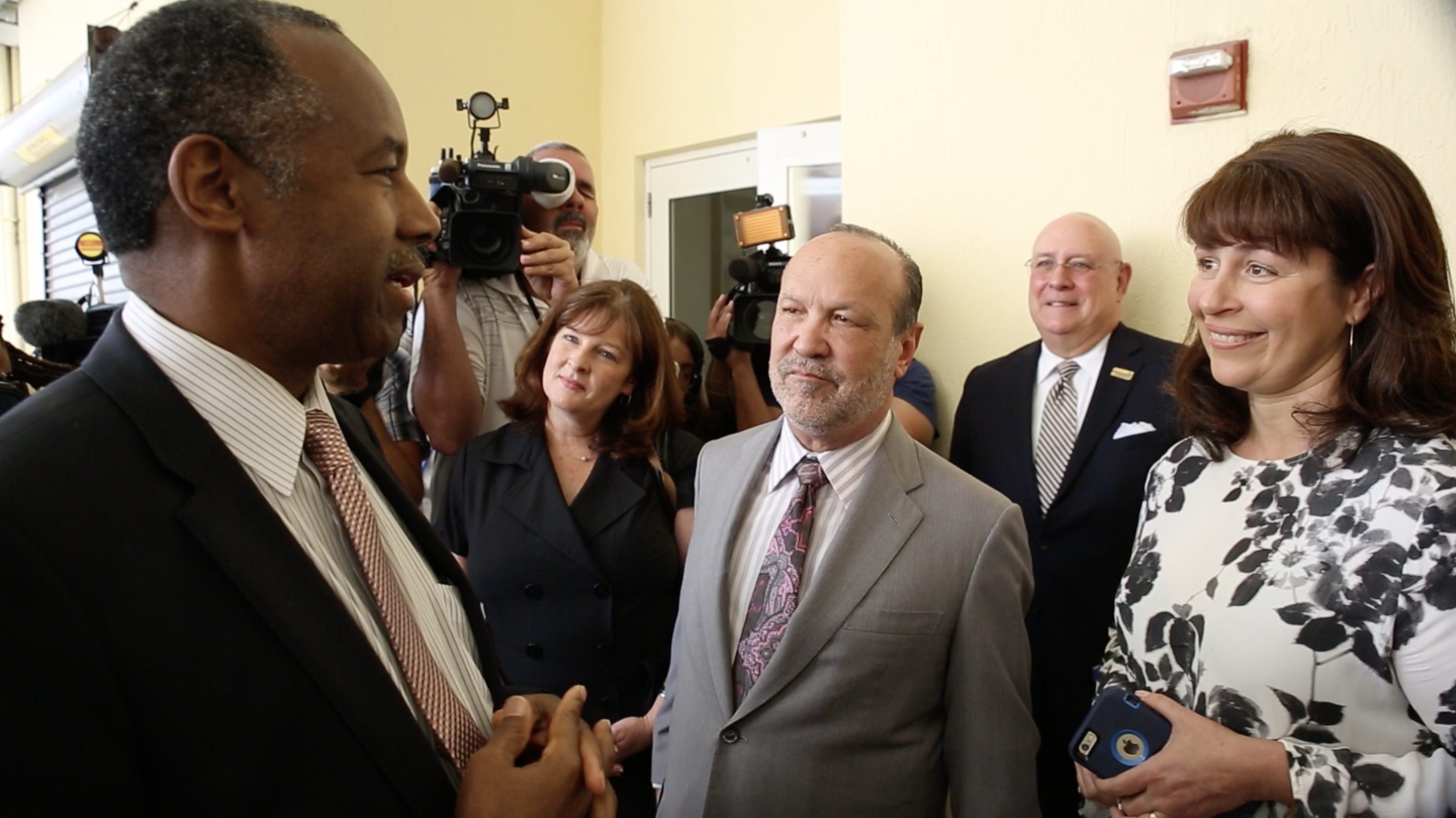 Carrfour CEO Stephanie Berman-Eisenberg, right, welcomes HUD Secretary Ben Carson, left, to Miami supportive housing community.